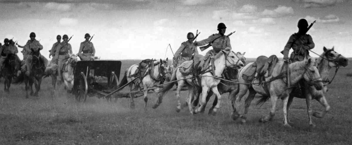 Type 41 75 mm Mountain Gun, towed by Imperial Japanese cavalry, Manchuria, 1939